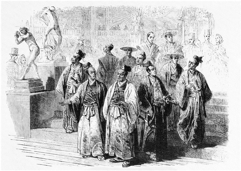 The Japanese ambassadors in London walking around the International Exhibition of 1862